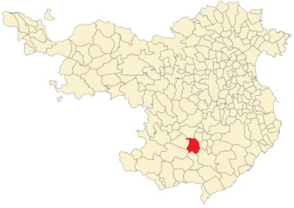 Vilobí d'Onyar